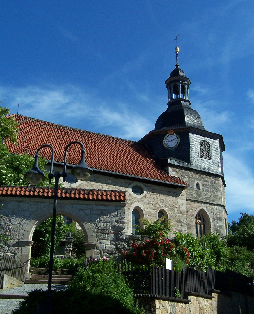 The Martin Luther church in Möhra village.